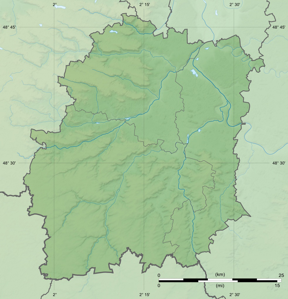 Blank physical map of the department of Essonne, France, for geo-location purpose, with distinct boundaries for regions, departments and arrondissements.